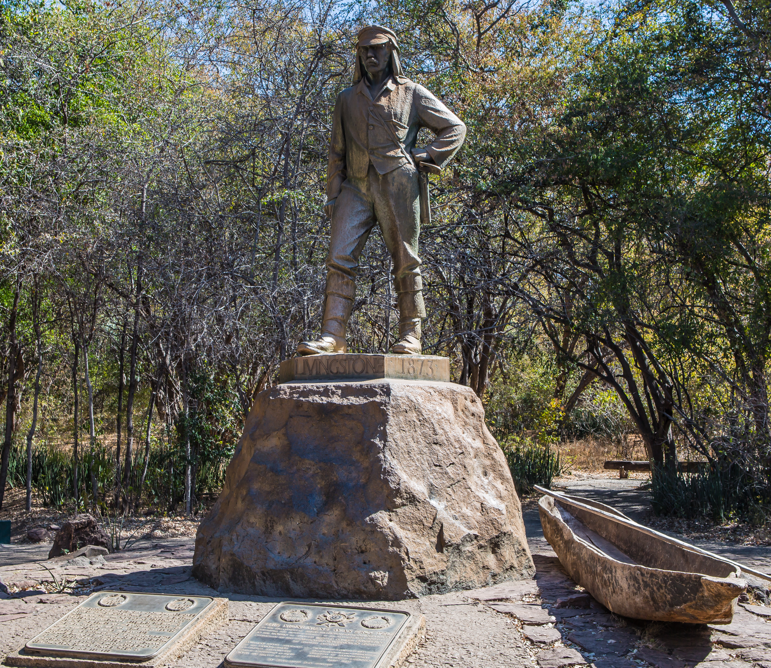 David Livingstone statue